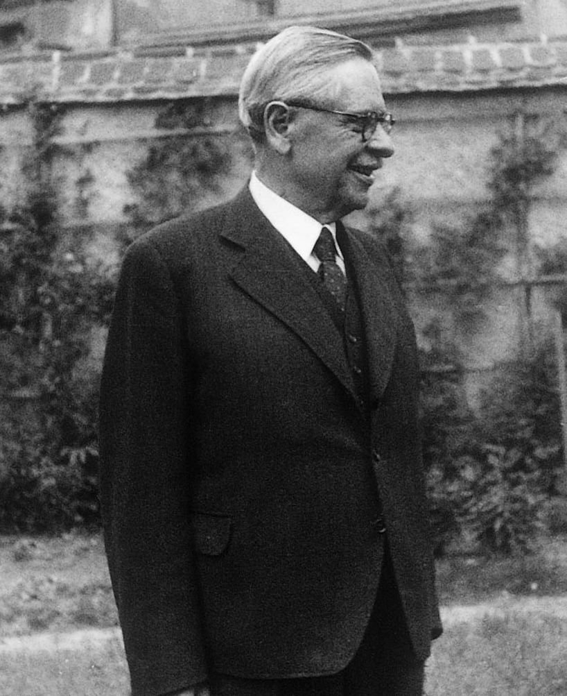 Jan Malypetr (1873–1947), Prime minister of Czechoslovakia (1932–1935) – pictured in Zlonice (after 1945)